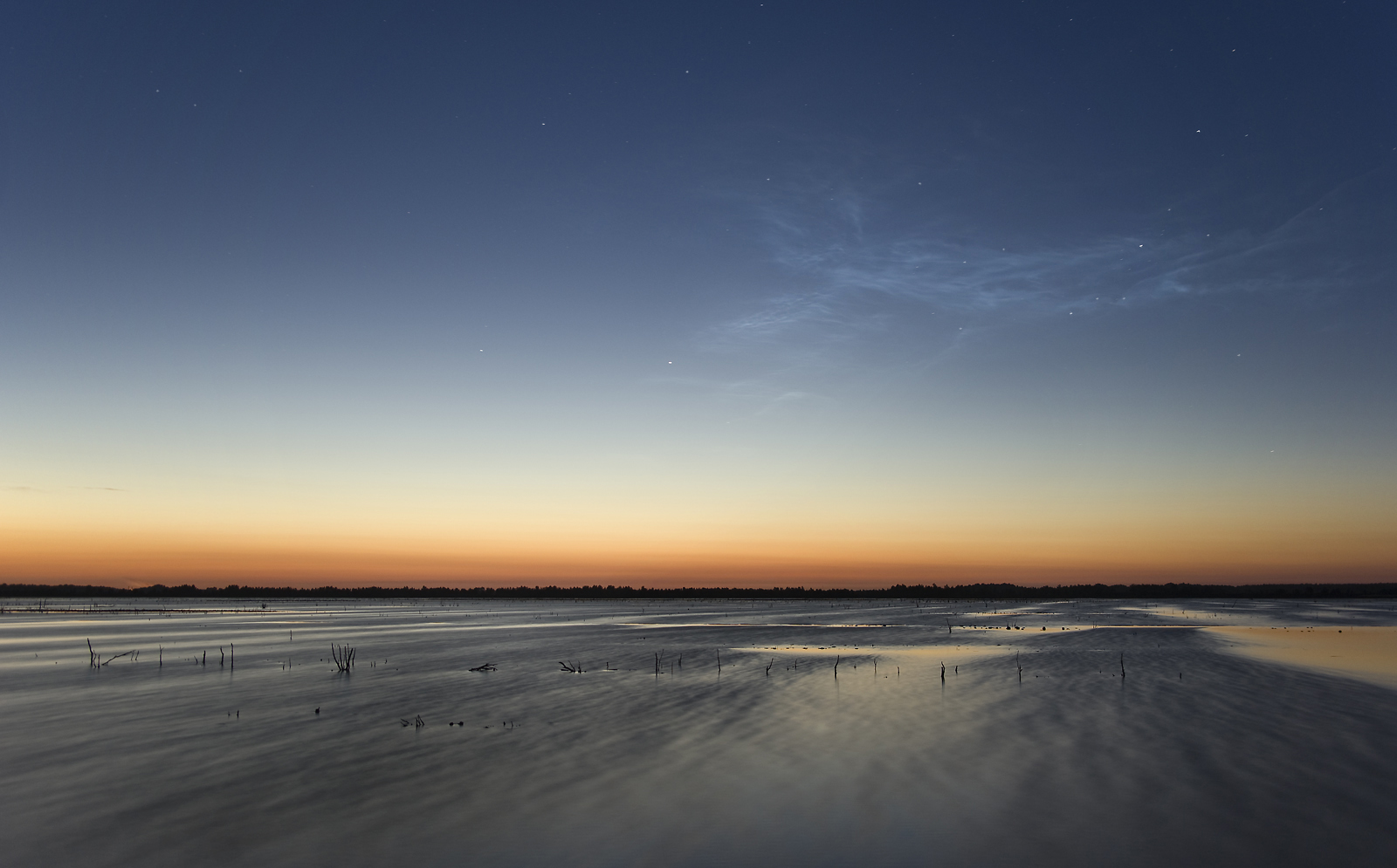 noctilucent clouds above a lake (bargerveen, drenthe, the netherlands)